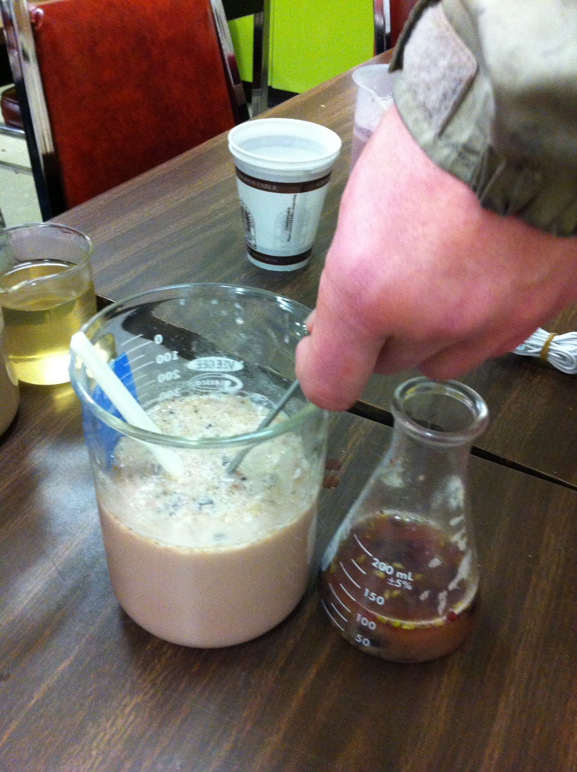 Preparing a wine yeast starter culture with rehydrated yeast being chilled down to must temperature with the slow addition of wine must (in this case Agria)